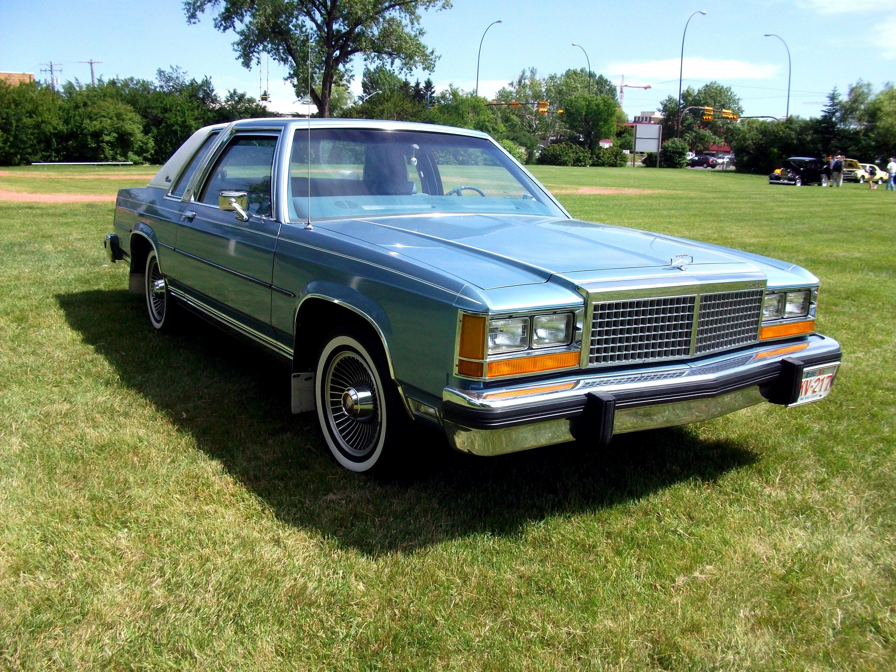 A 1980-1982 Ford LTD Crown Victoria two-door sedan. Before 1983, the Crown Victoria was a deluxe sub-model of the full-size LTD line.